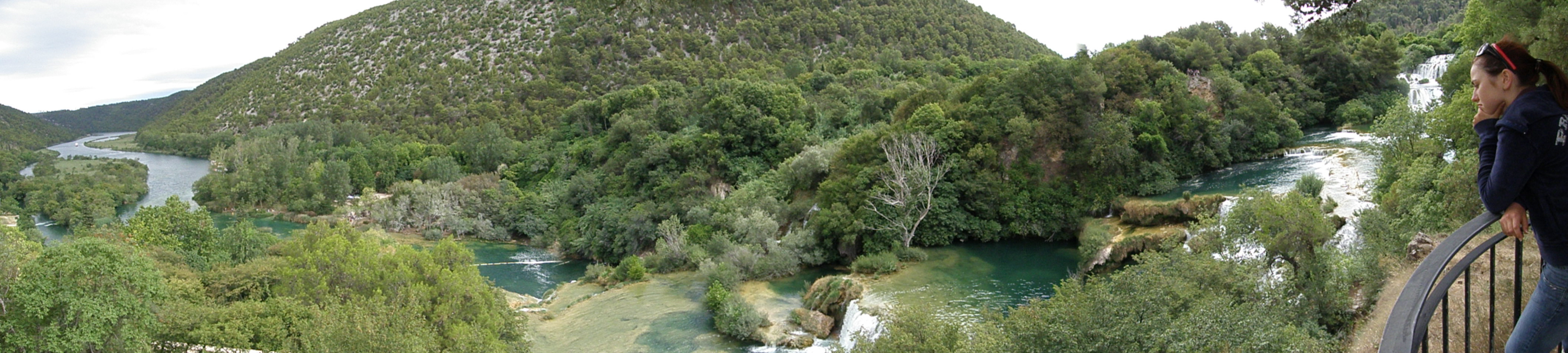 Skradinski buk at Krka